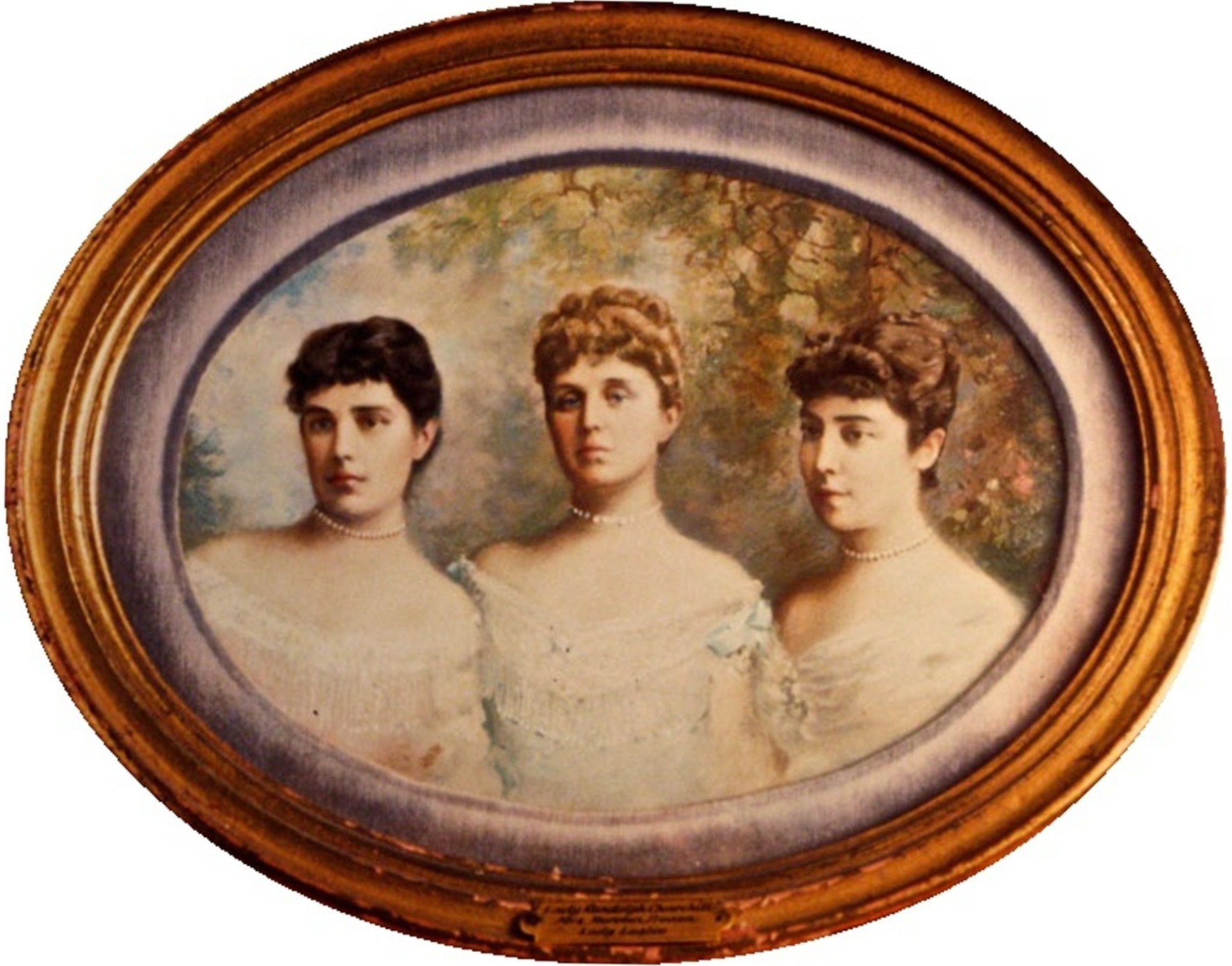 The Jerome Sisters : Jennie (1854-1921), Clara (1851-1935) and Leonie (1859-1943). These three wealthy young Americans arrive in England at the end of the 19th century in search of good match in big families. Social ascension, success, disappointments are all experiences that they will go through together. Their father, Leonard Walter Jerome (1817-1891), is a descendant of Timothy Jerome, a French Huguenot immigrant who arrived in the New York Colony in 1717. Leonard Jerome, a Wall Street speculator, built a mansion on Madison Avenue and a villa in Newport, Rhode Island. Her spouse is Clarissa Hall (1825-1895). Jennie Jerome married Lord Randolph Spencer-Churchill, younger son of the Duke of Marlborough and was the mother of Winston Churchill. Clara Jerome married Moreton Frewen, an English adventurer who was at one time a cattle rancher in Wyoming, and later became a Member of Parliament. He was nicknamed Mortal Ruin by some of his family members, because he had an unfortunate streak of bad luck with his investments. Leonie Blanche Jerome married Sir John Leslie, 2nd Baronet, a member of an important Anglo-Irish family.